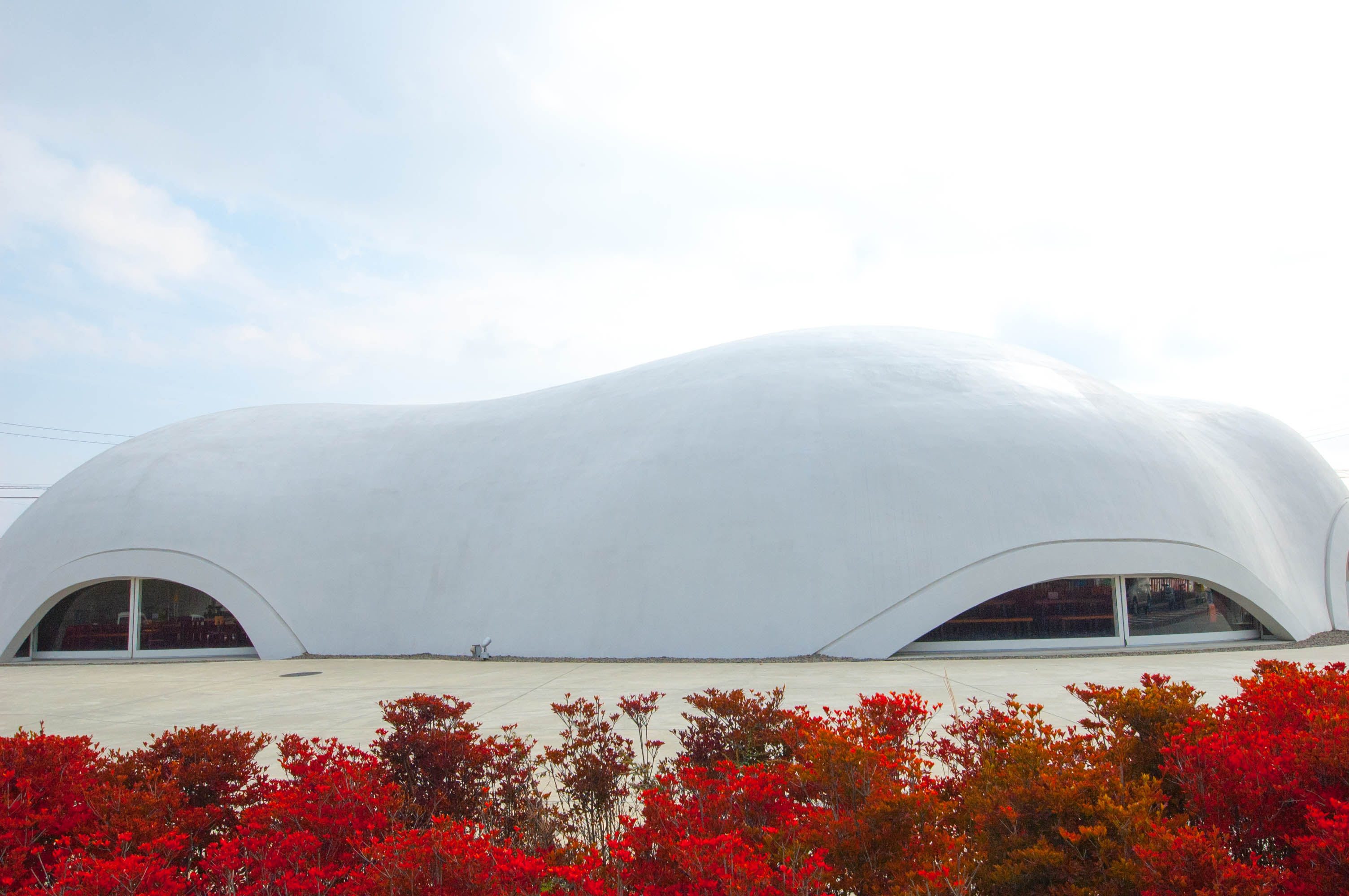 設計：保坂猛 reference ([1] [2])